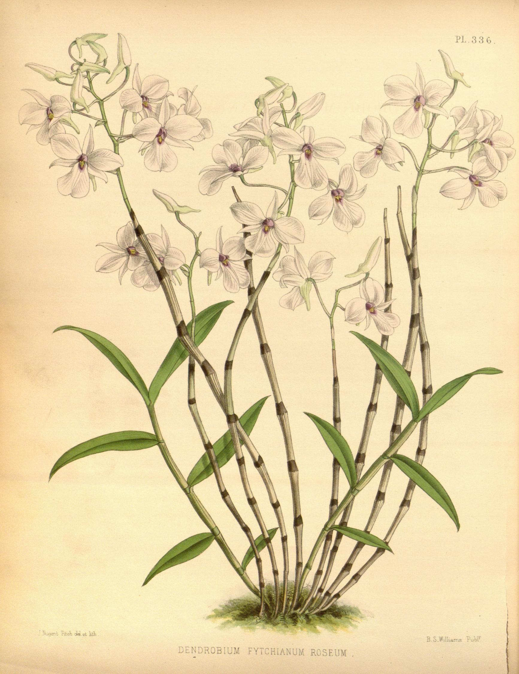 PL.33G. •c: •X '■4\ '- V r-^-^ -a.t^i . la. B.S. Williams ^\-"" DENDROBIUM FYTCHIANUM ROSEUM